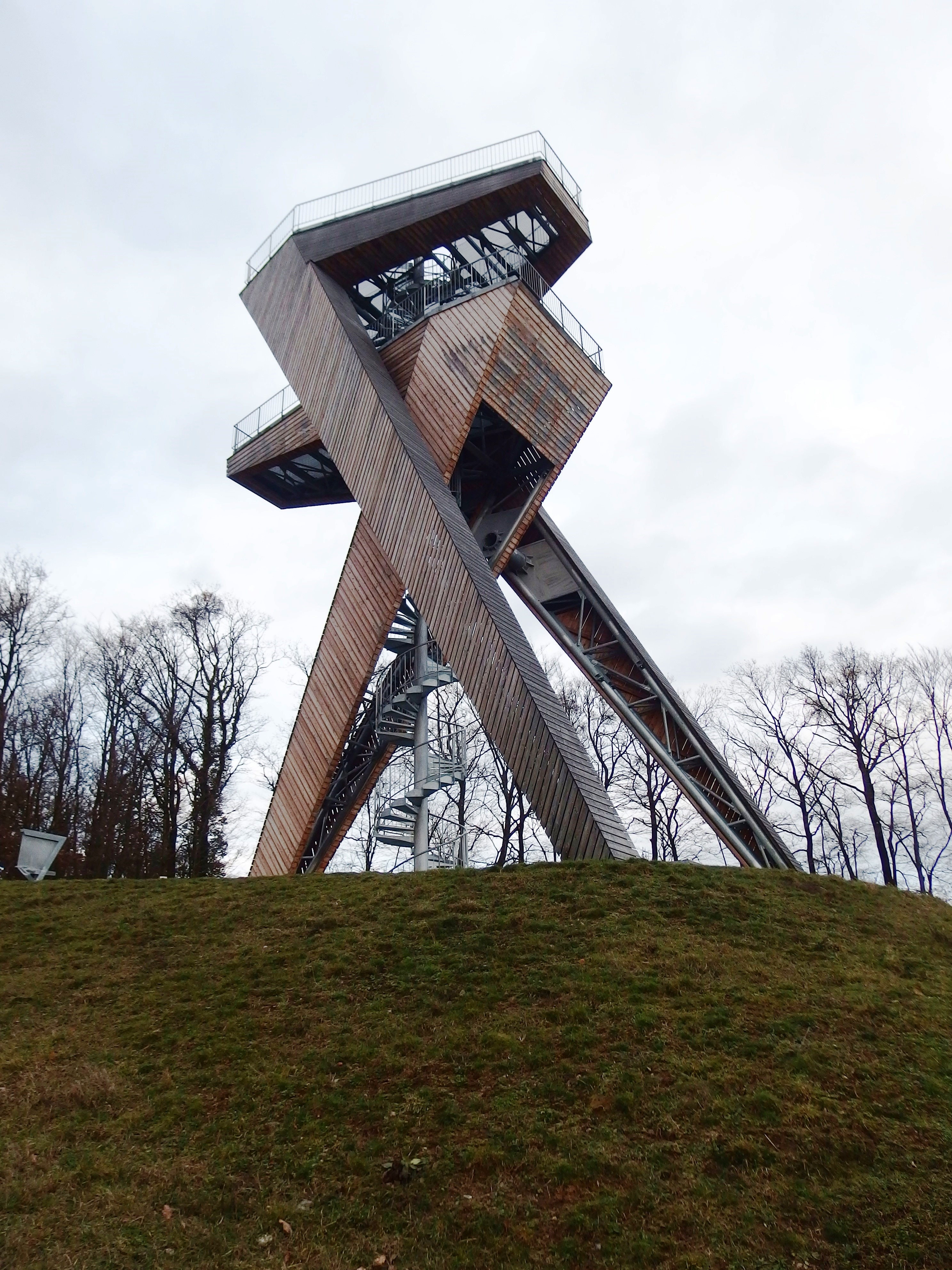 Salaš, Uherské Hradiště District, Czech Republic. Observation tower.